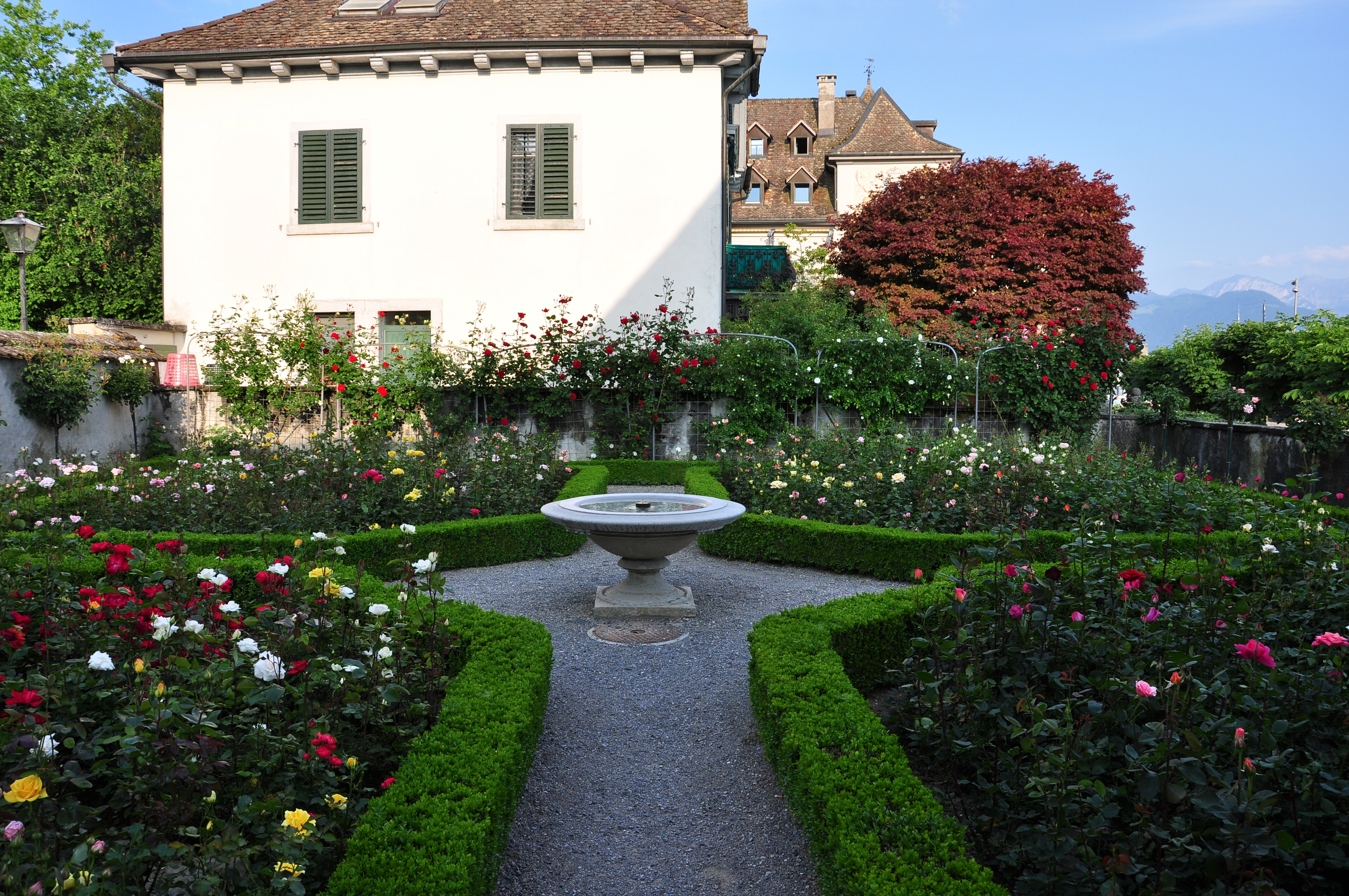 Rapperswil (SG) : Einsiedlerhaus rose garden with fountain (750 years Rapperswil), former Kapuzinerkloster Obstgarten (before 1972).